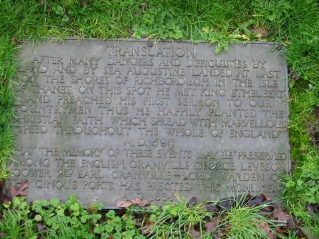 Plaque with English translation beneath St Augustine's Cross.